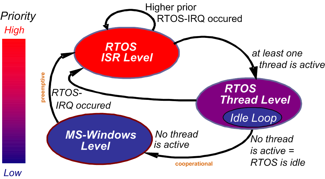 Real Time Extension State Machine